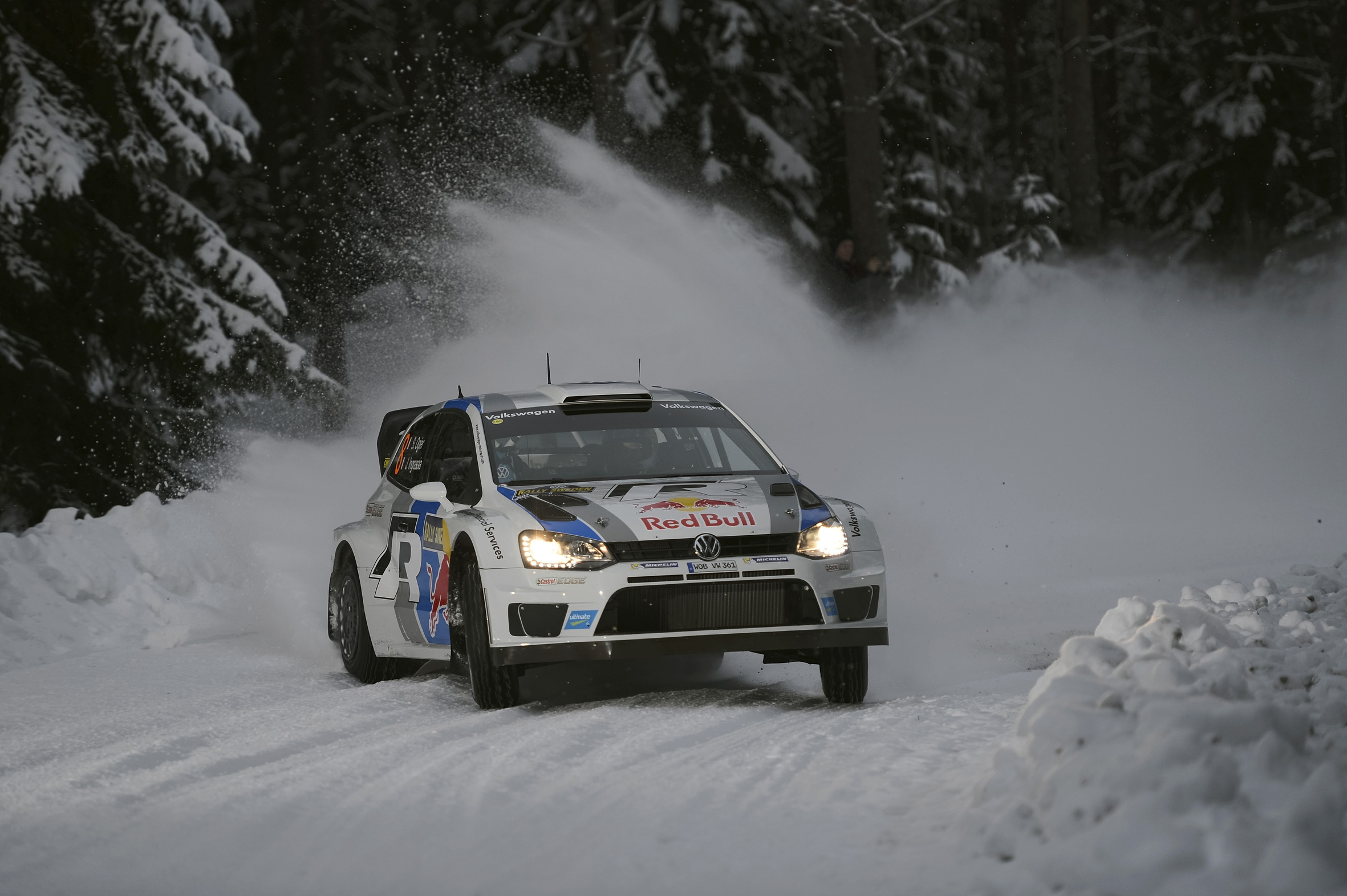 Sébastien Ogier and co-driver Julien Ingrassia in their VW Polo R WRC at the 2013 Rally Sweden.